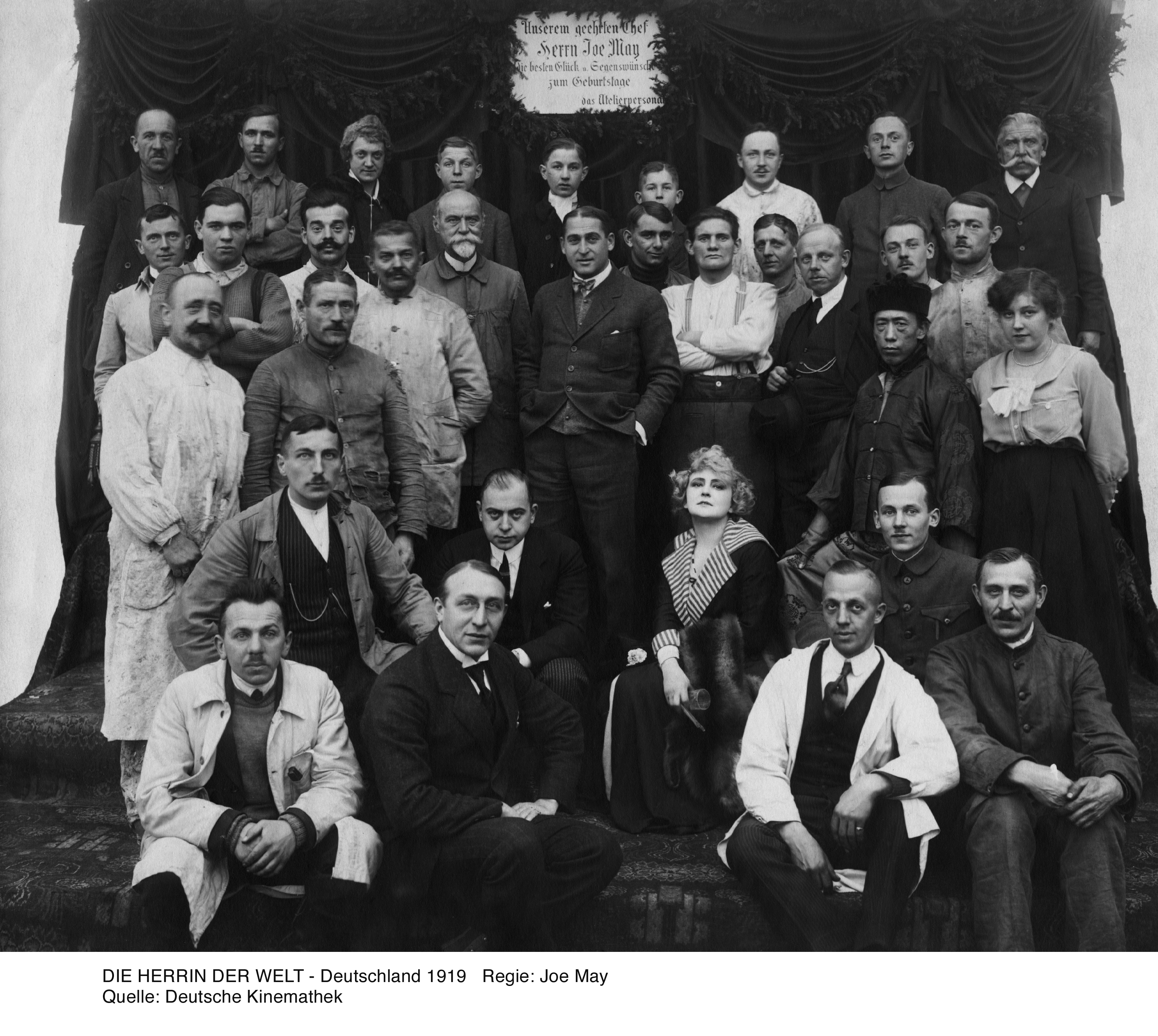 The cast and crew of the UFA German silent movie Die Herrin der Welt (U.S. title: The Mistress of the World). Stood central with hands in pockets is producer and director Joe May. Fourth to the left of May is set director Otto Hunte. To Hunte's left wearing a black hat is actor Henry Sze. Sat central is May's wife, and the film's heroine Mia May. In white shirt in the back row is Erich Kellelhut.